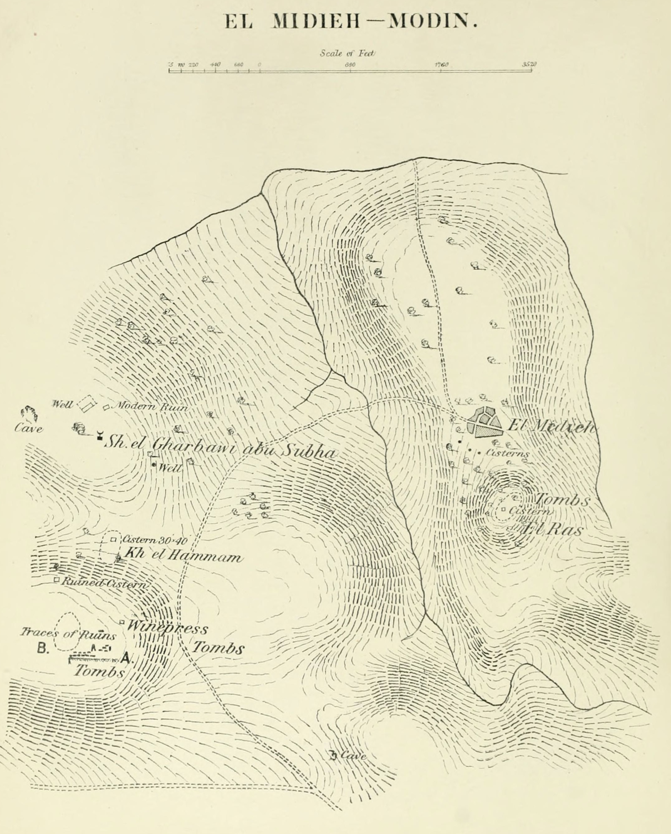 El Midieh-Modin from the 1871-77 Palestine Exploration Fund Survey of Palestine